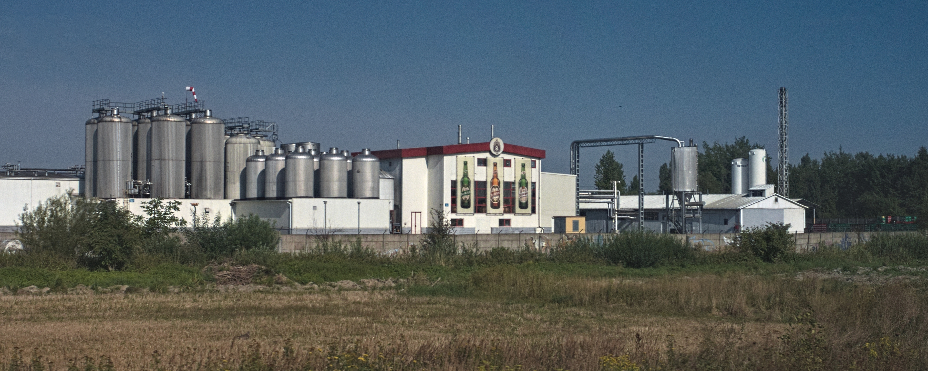 Cornelius brewery in Piotrków Trybunalski, owned by Sulimar, view from PKP Hutnik Intercity train